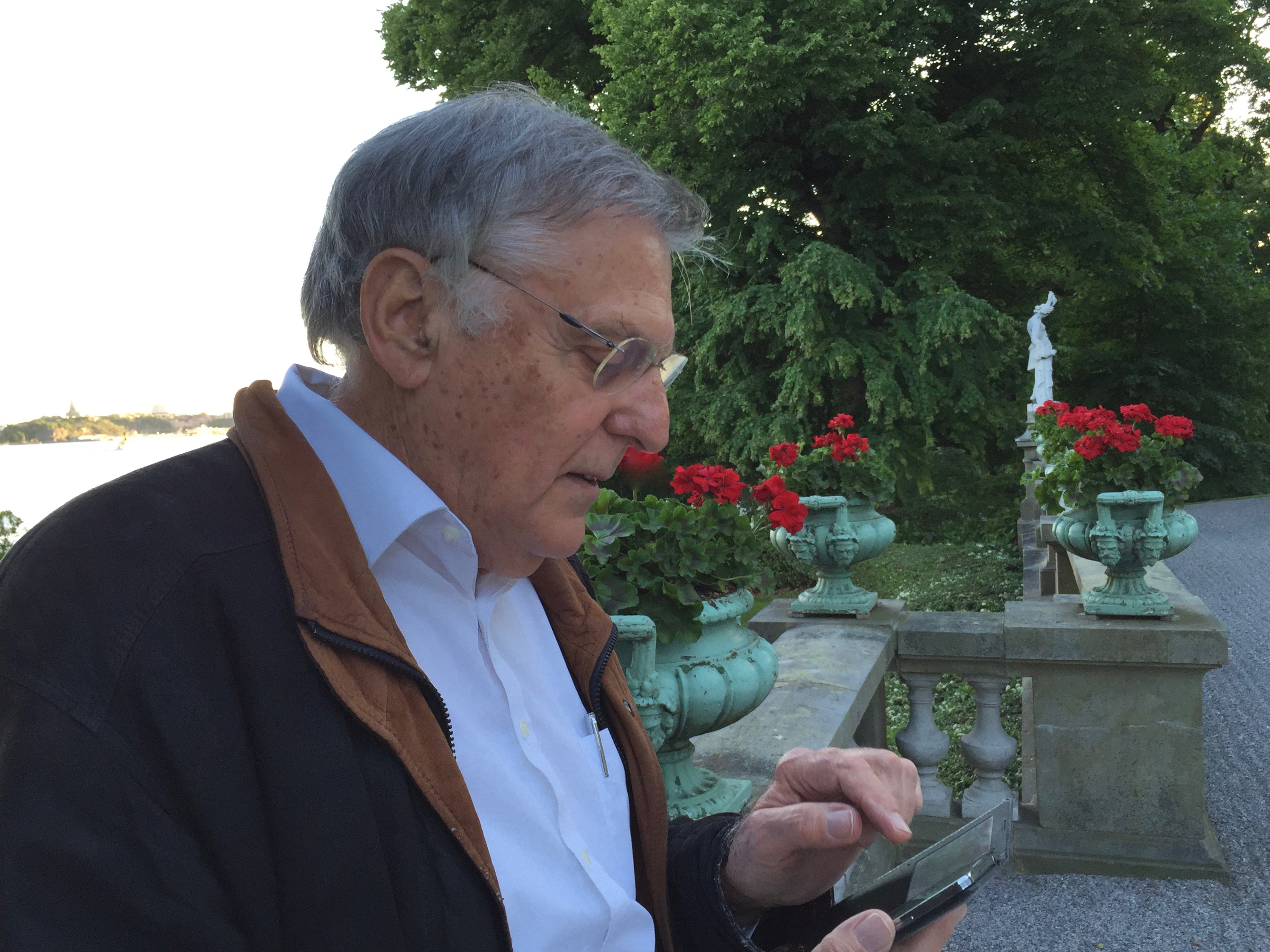 Daniel Shechtman (Nobel Chemistry 2011) in Stockholm, June 2016